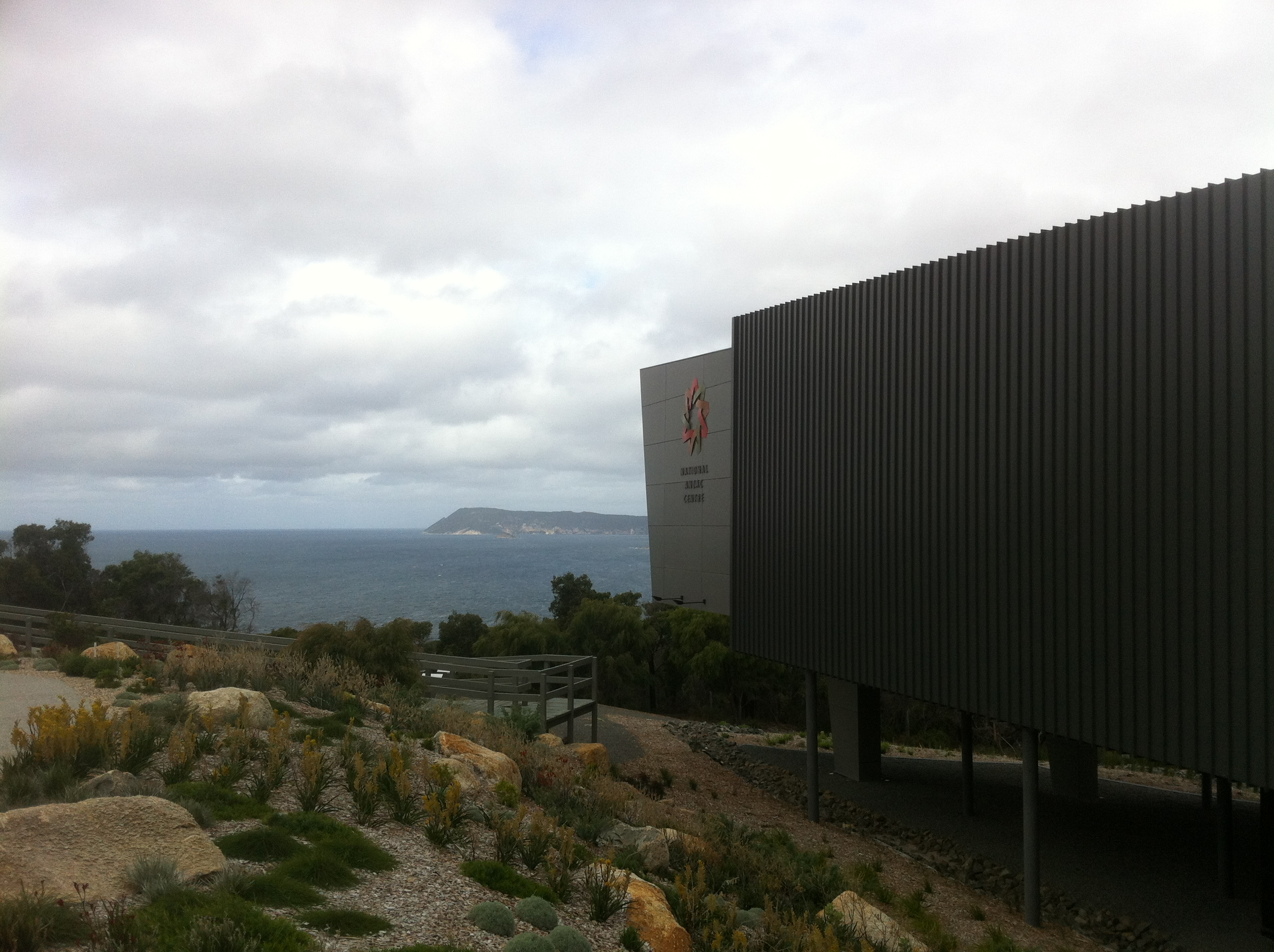 National Anzac Centre April 2015 on Mount Clarence